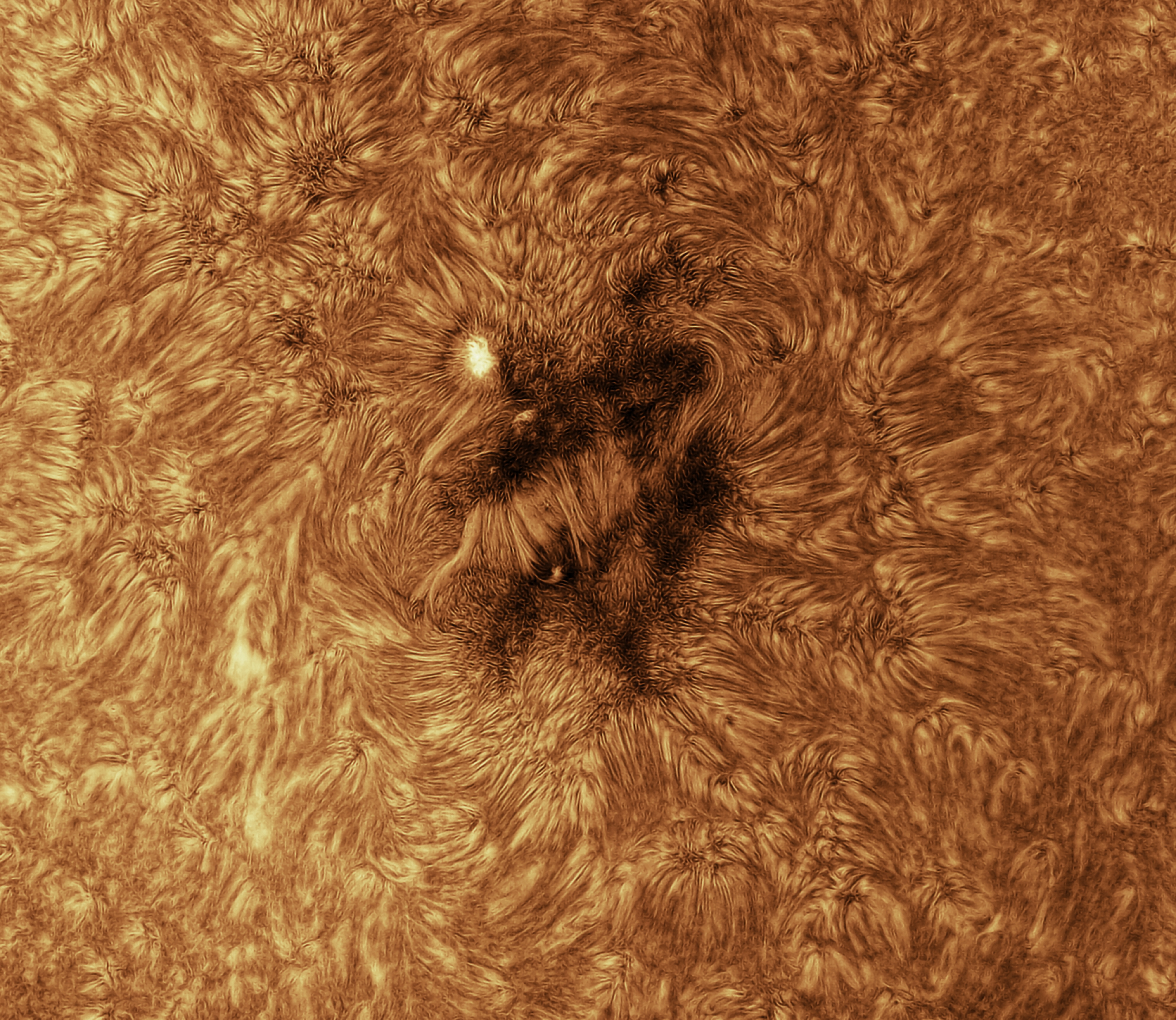 This is a solar active region with sunspot however the dramatic part is the very broad AFS (arch filament system) which has developed between areas of opposite polarity. Sunspots and associated active regions are the are areas where the sun's internal magnetic fields break through the photosphere. When viewed with a visible spectrum instrument, you see just a black spot with radial tendrils emanating outward. Just above the photosphere in the chromosphere, the magnetically sensitive ionized hydrogen is pushed and pulled by the powerful magnetic fields breaking free from the sun's interior. This ionized hydrogen takes the form of the magnetic flux lines similar to iron filings on a sheet of paper with a magnet underneath. While these shapes are invisible when looking at the full visible spectrum, they become clearly defined when we isolate specific atomic emission lines such as H-alpha. H-alpha is the light emitted as the Hydrogen electron moves to a lower power state, specifically from the third to second orbital.